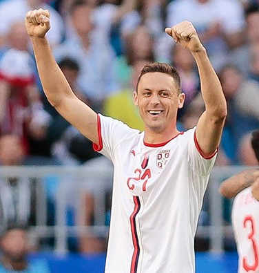 Nemanja Matić